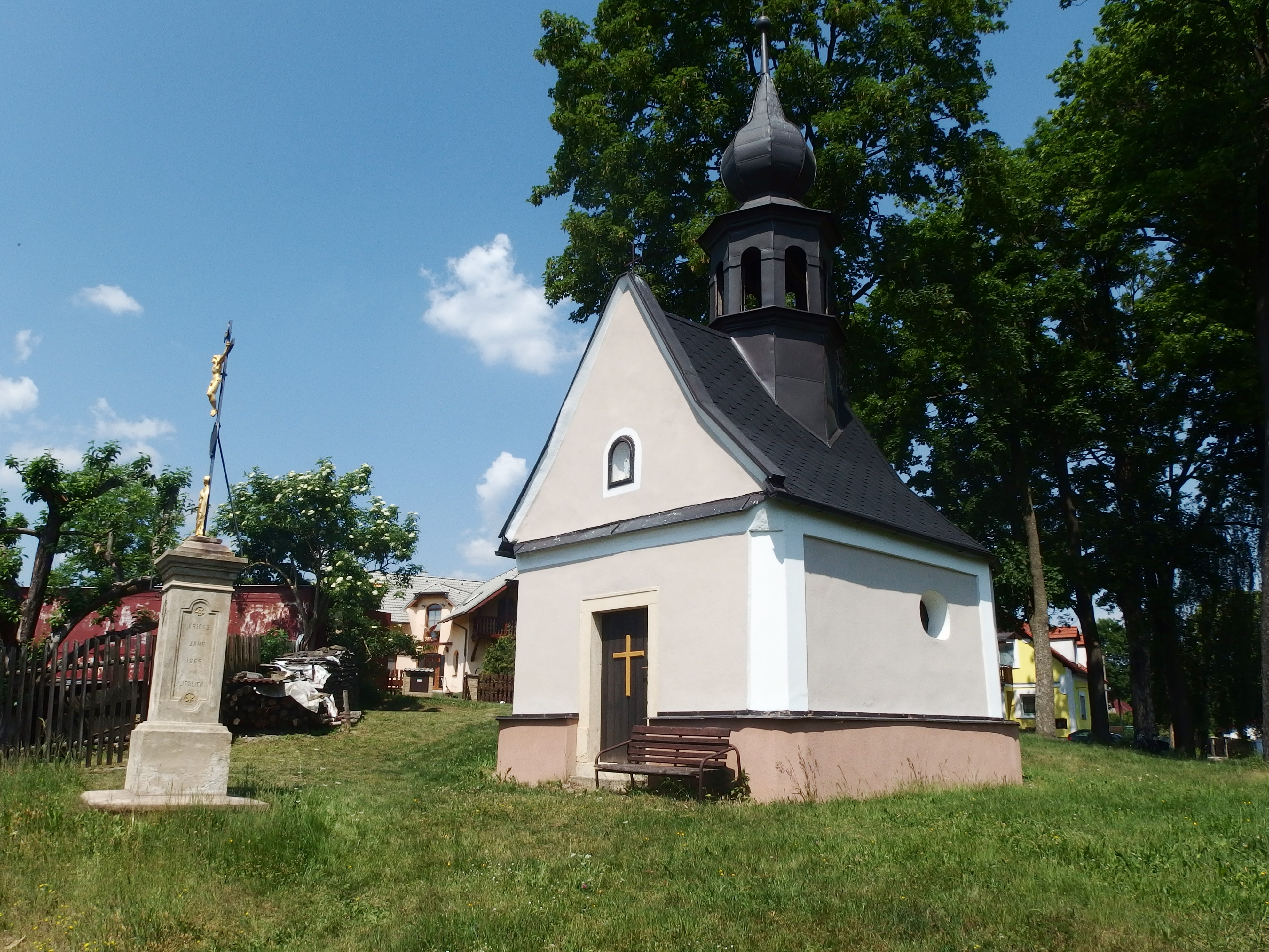 Lavičné, Svitavy District, Czech Republic.